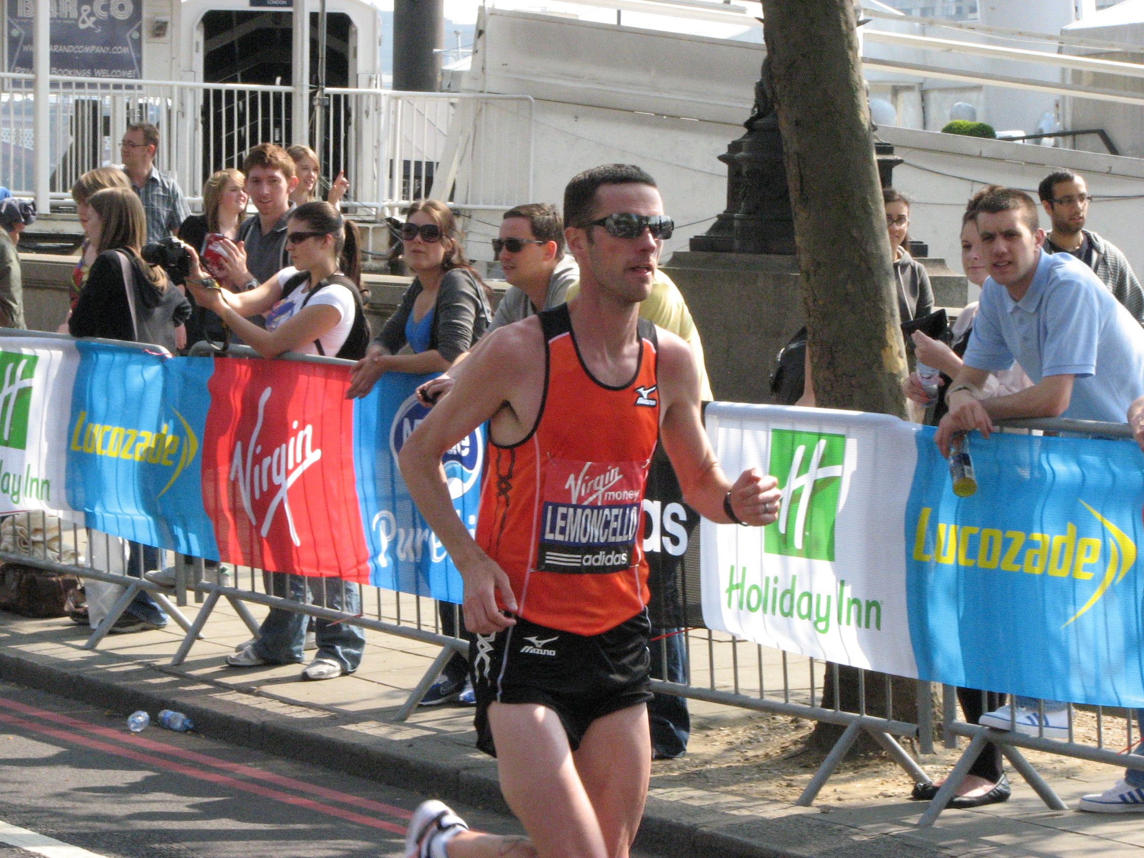 2011 London Marathon - Andrew Lemoncello between stitches with one and a half miles to go. About half a mile later he got a second stitch, and a bad one, coming in fifteenth in 2:15:24. Virgin London Marathon, 17 April 2011. Taken from 24 and a half miles, at the (western) junction of Victoria Embankment and Temple Place, very close to the Walkabout.